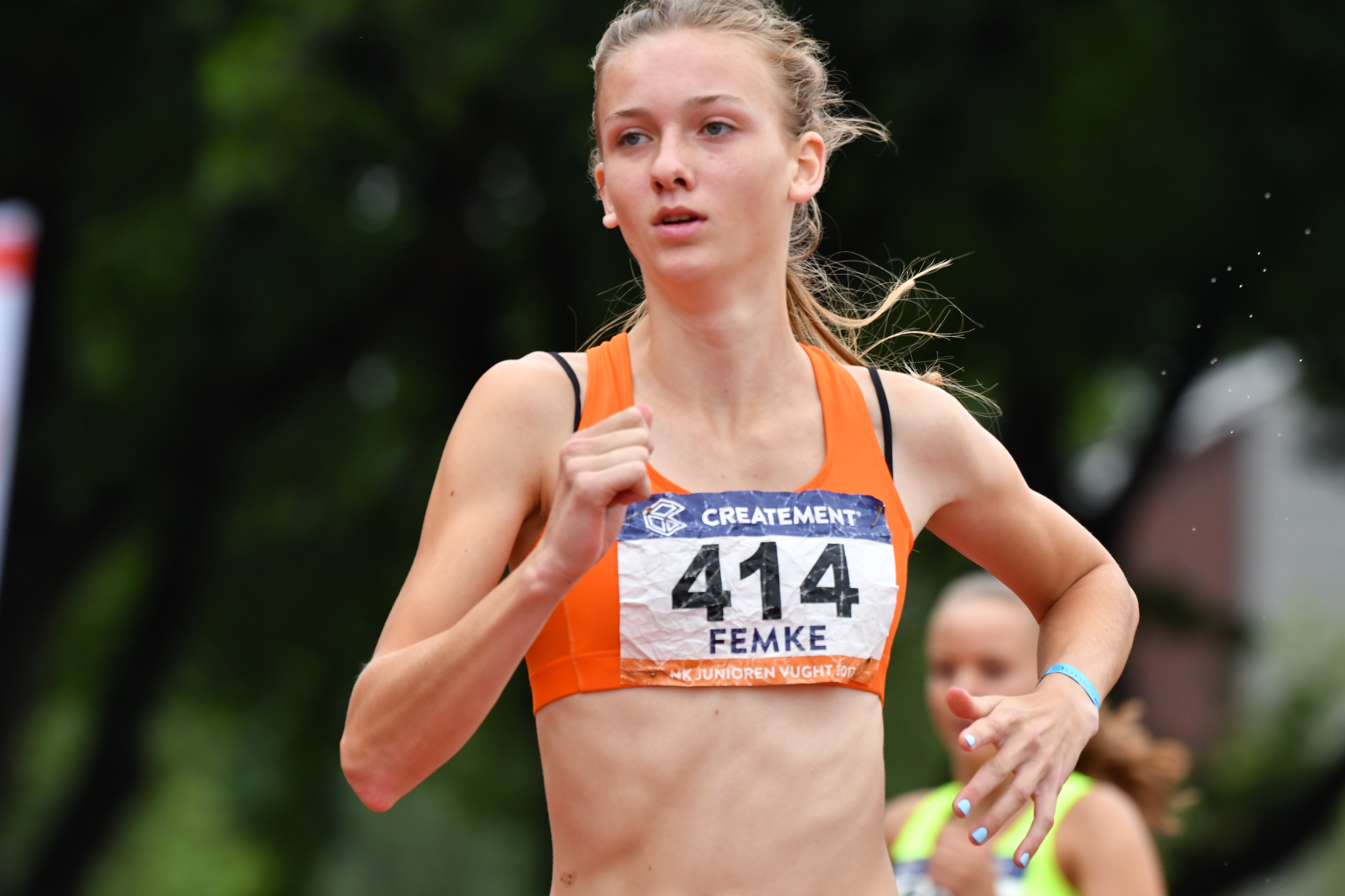 Femke Bol in action at the 2017 Dutch U20 Championships in Vught.